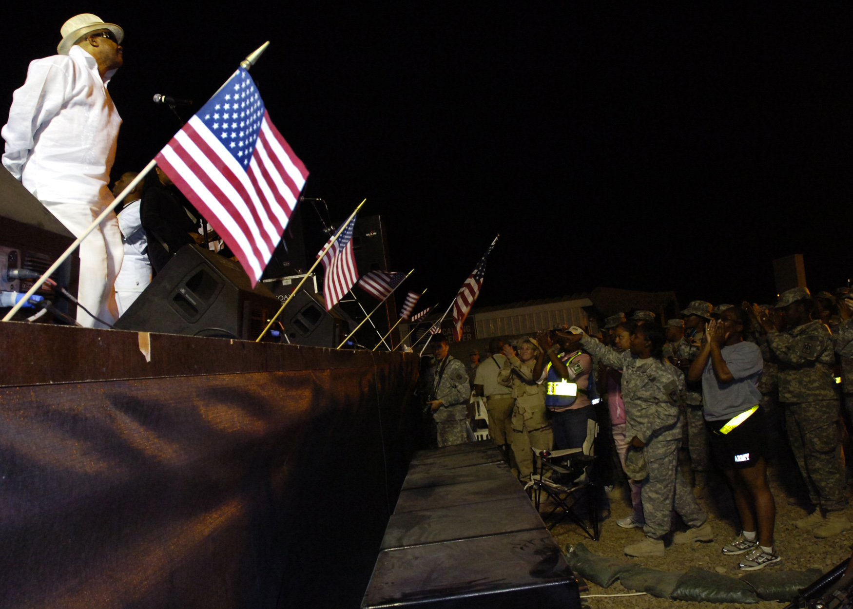 Larry Dodson, lead singer of the funk band "The Bar-Kays," gets the crowd pumped up during the, United Service Organization sponsored, Legends of Funk Tour at the Camp Liberty Post Exchange Stage May 29. The Legends of Funk will be performing five shows during their time overseas; one in Kuwait and four in Iraq two of which will be played on Camp Liberty.